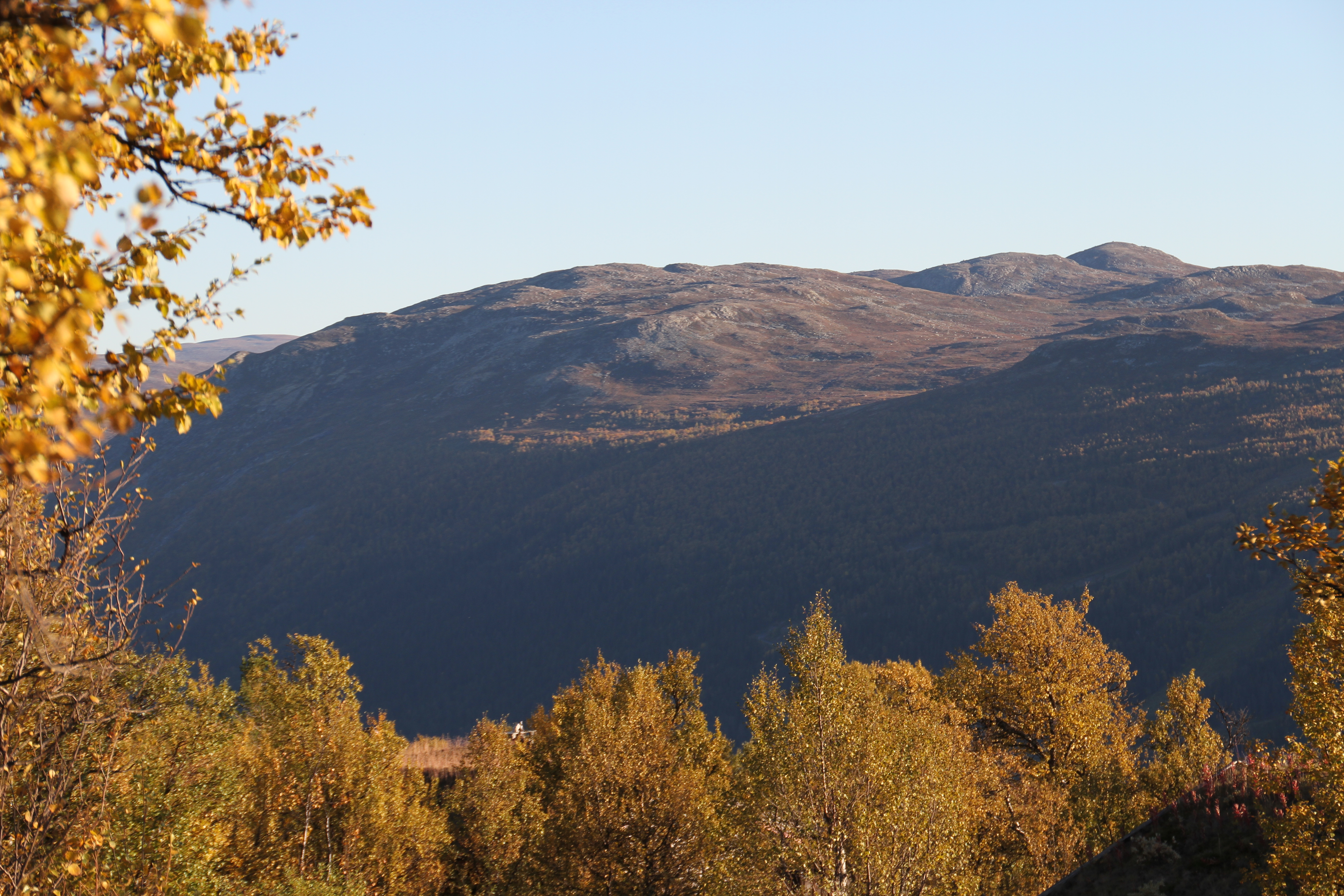 Mountain in the Imingfjell massif, the mountain massif west of the Uvdal valley, in Nore og Uvdal municipality, Norway